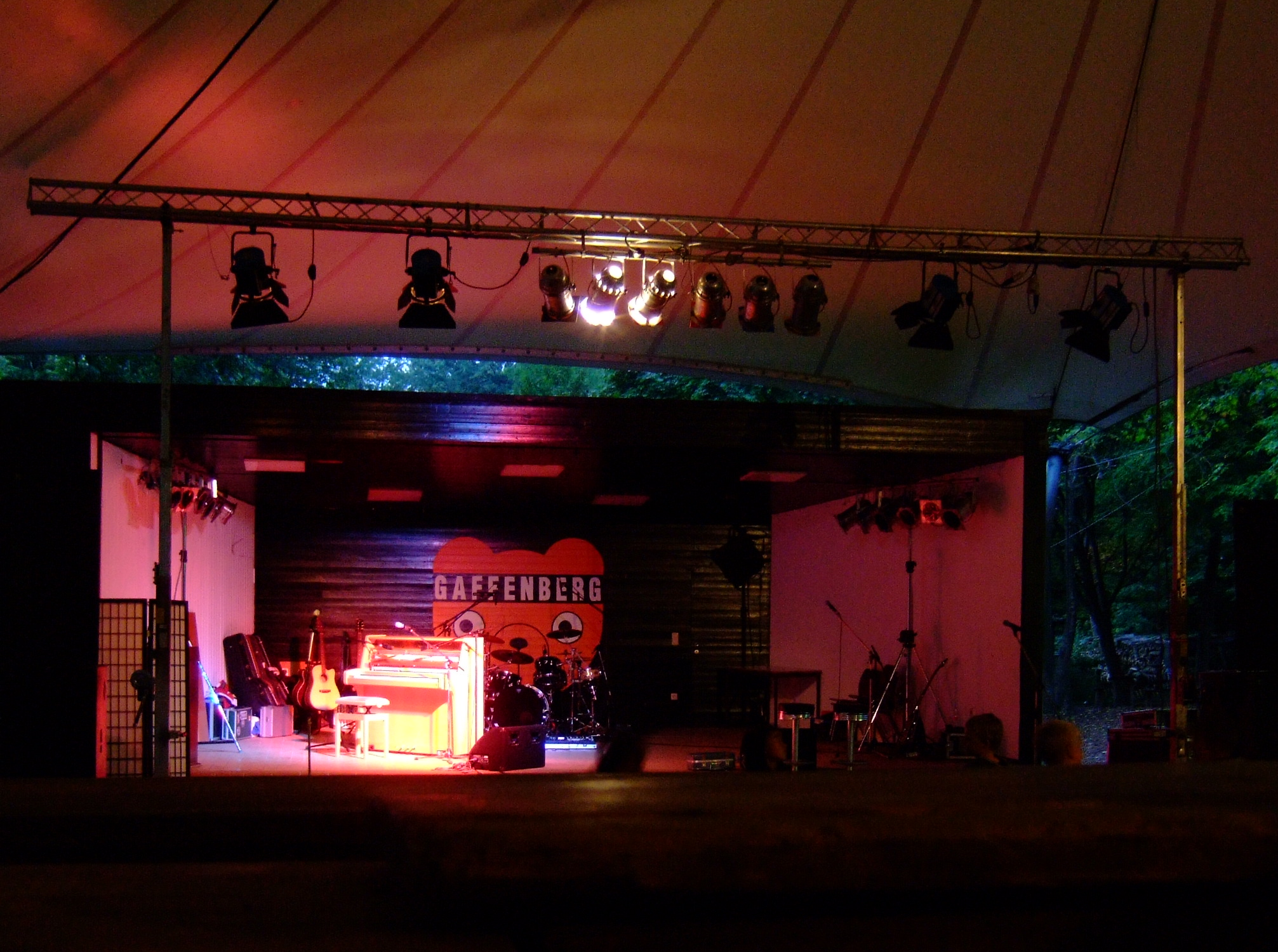 Stage below the tent "Audi-Zelt" on the Gaffenberg of Heilbronn